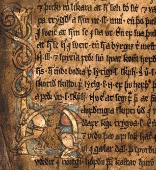 Njiál's Saga (detail of a miniature)